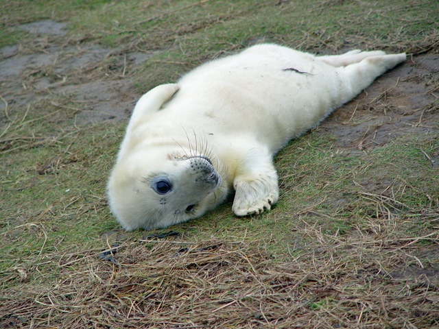 A young seal at Donna Nook. This person is just a few days old, and already has learned that any part of the body will do for sleeping on, side, back, tummy, it all works. Also, posing for the camera is not too hard.